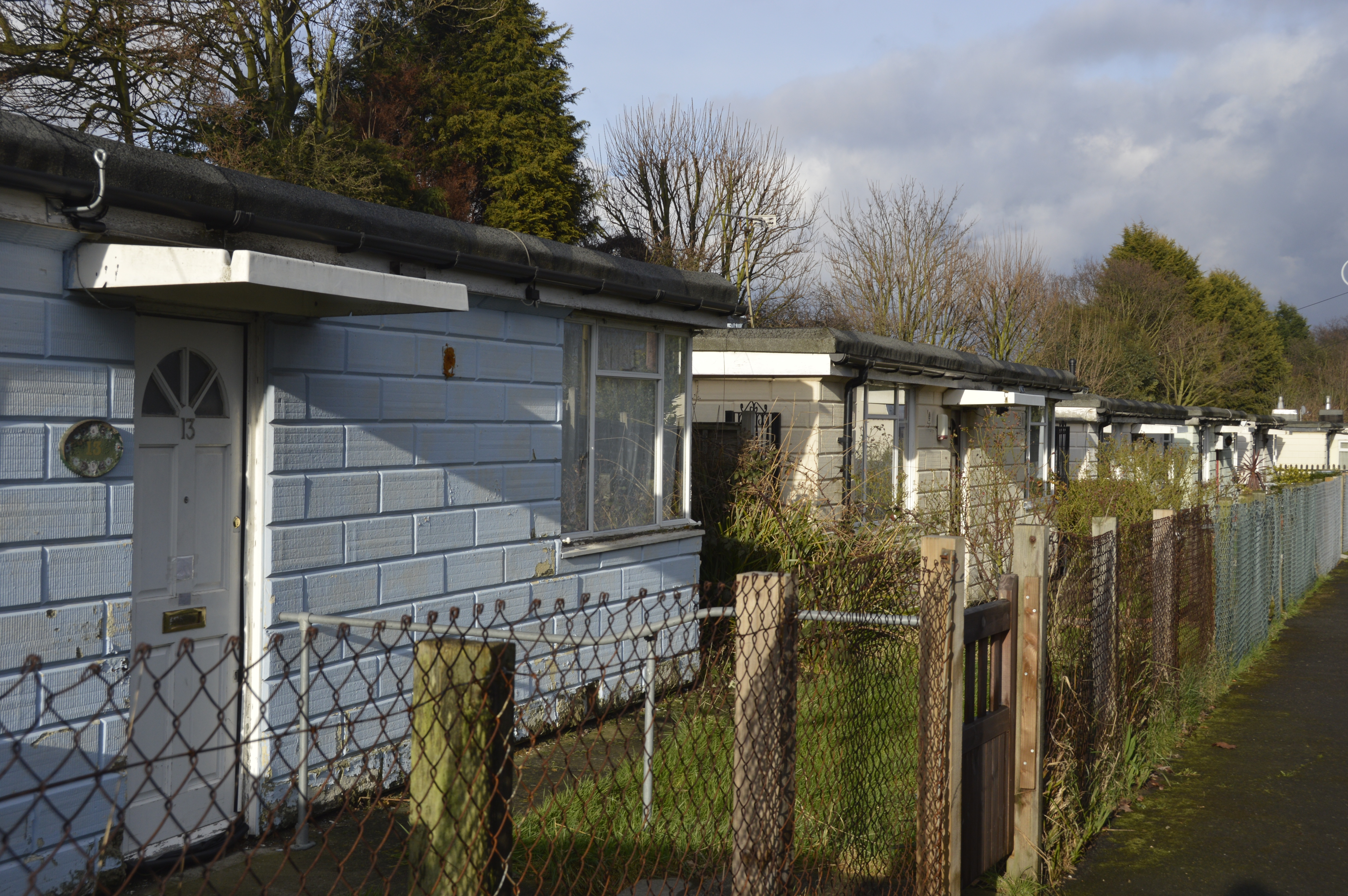 Excalibur Estate in Catford south London, one of the few remaining estates of prefabricated houses from the post-WWII era and scheduled for demolition in 2013. I _think_ this is one of the closes off Persant Rd in the southwest of the estate but can't remember for sure.